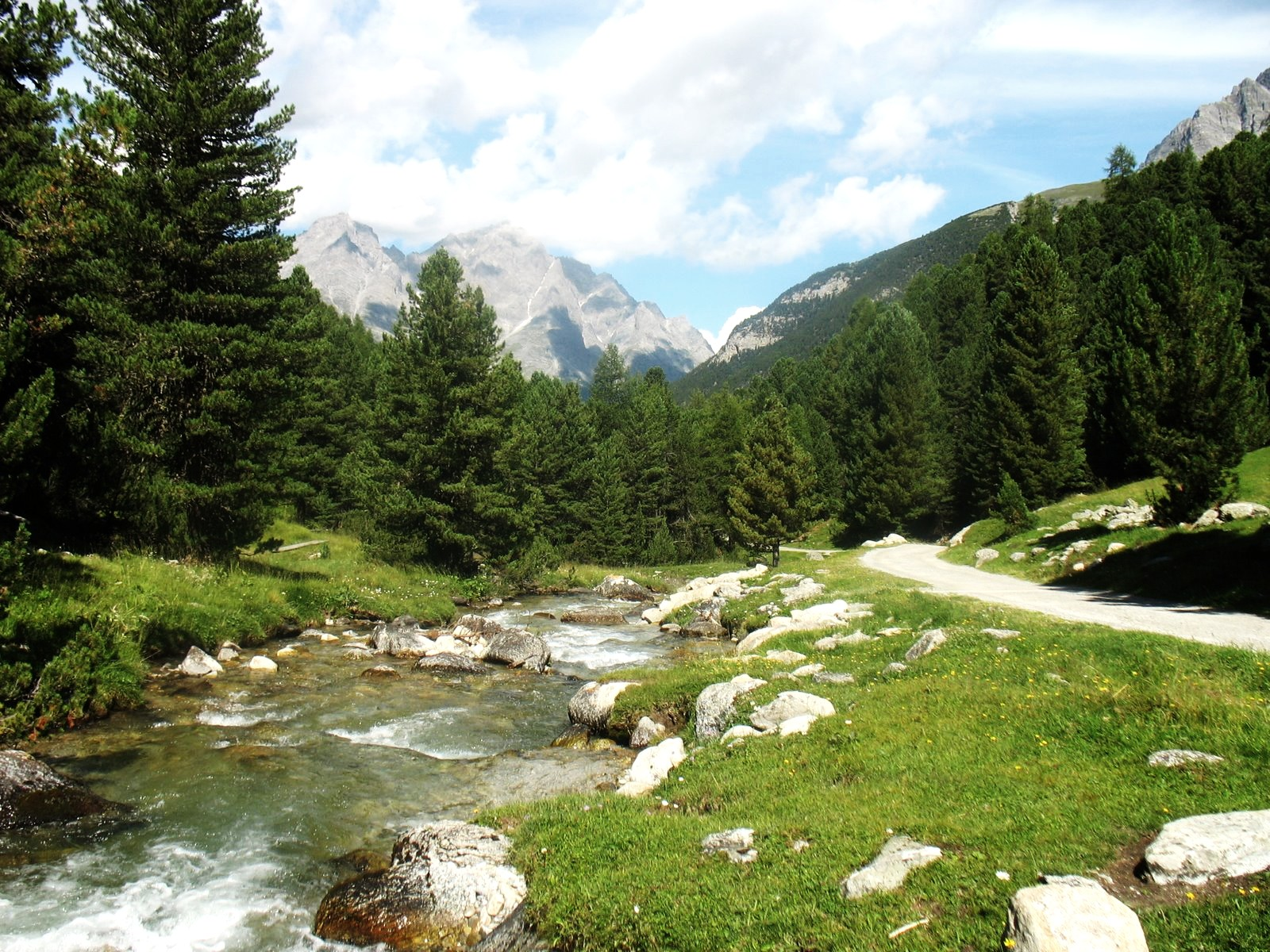 Pinus cembra in Tamangur forest and Piz Pisoc, Graubünden